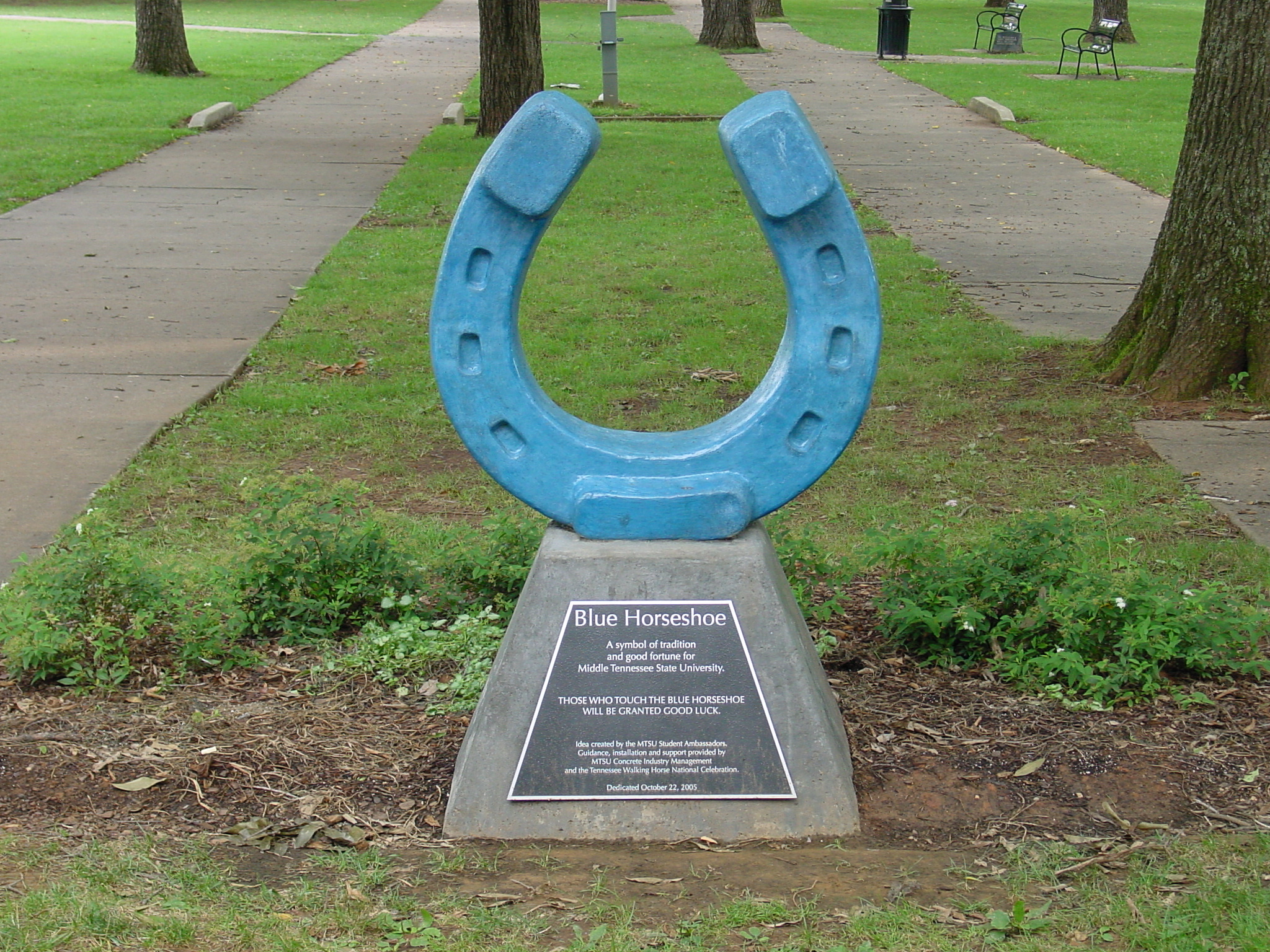 Author: Tim Eubanks